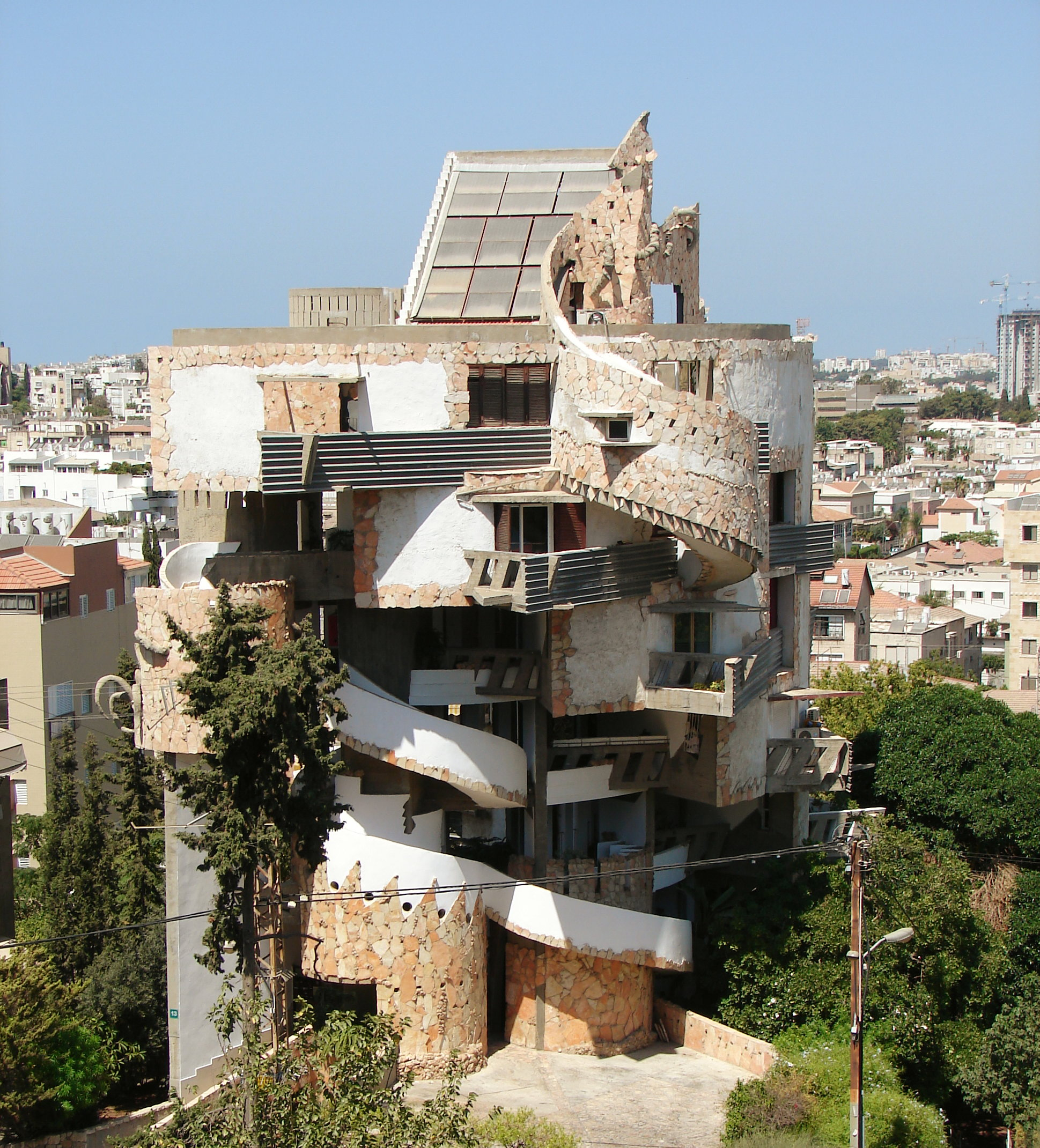 "Crazy House" in Ramat Gan, Israel